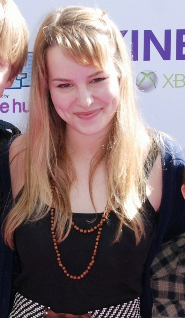 Bridgit Mendler attends the Variety's Power of Youth Event at Paramount Studios in Hollywood, CA, Oct 24, 2010